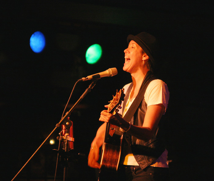 Michelle Shocked performing at the Belly Up Tavern in Solana Beach, CA on March 18th, 2010. Photo by Rob Keaton.